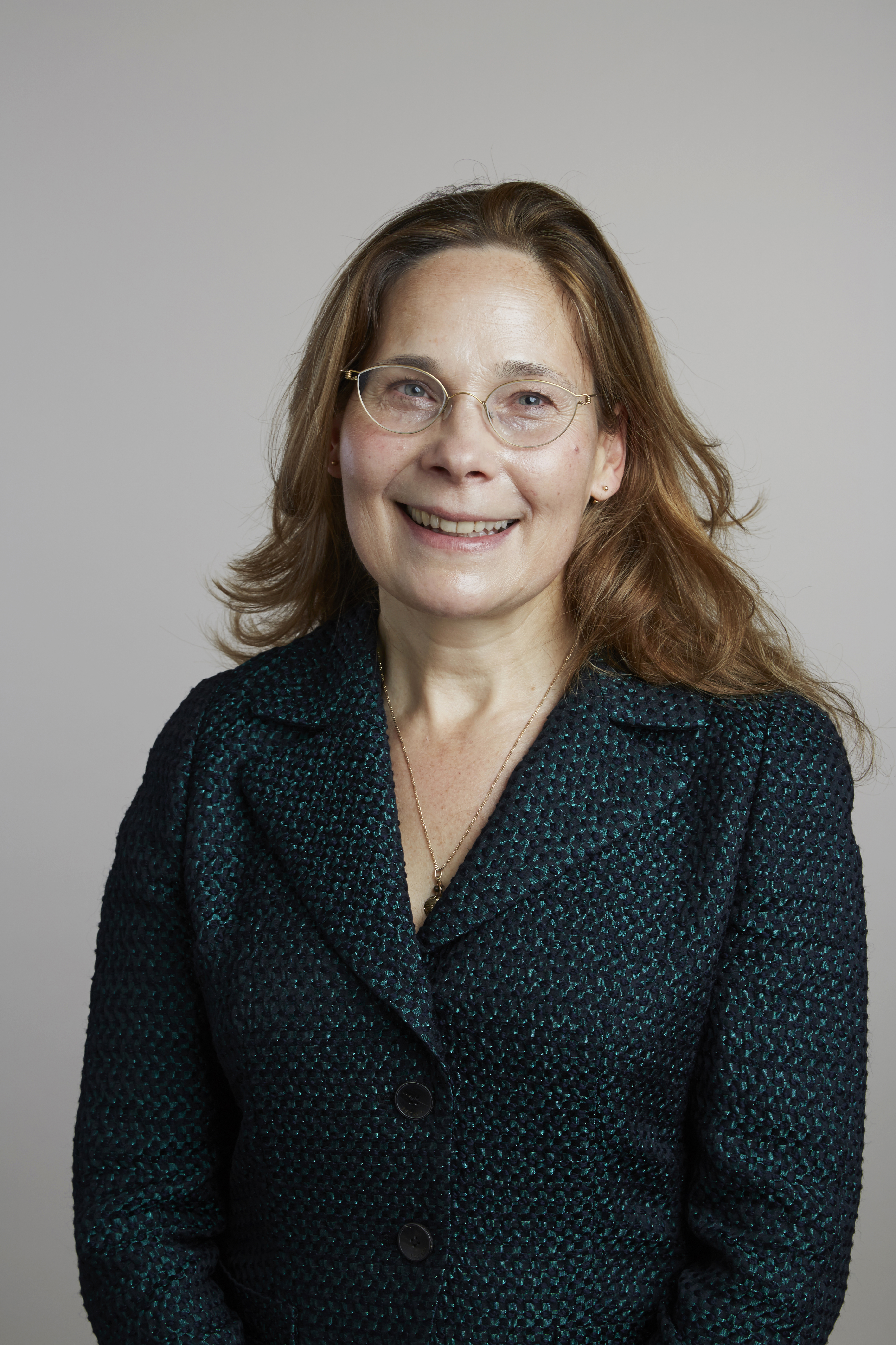 Natalie Strynadka is a pioneer in the study of proteins and protein assemblies essential to bacterial pathogenicity and antibiotic resistance. Her agenda-setting dissection of the membrane assemblies involved in infection, virulence and bacterial cell wall synthesis is having major impact in the development of therapeutic agents; both antibiotics and vaccines. Attribution: The Royal Society